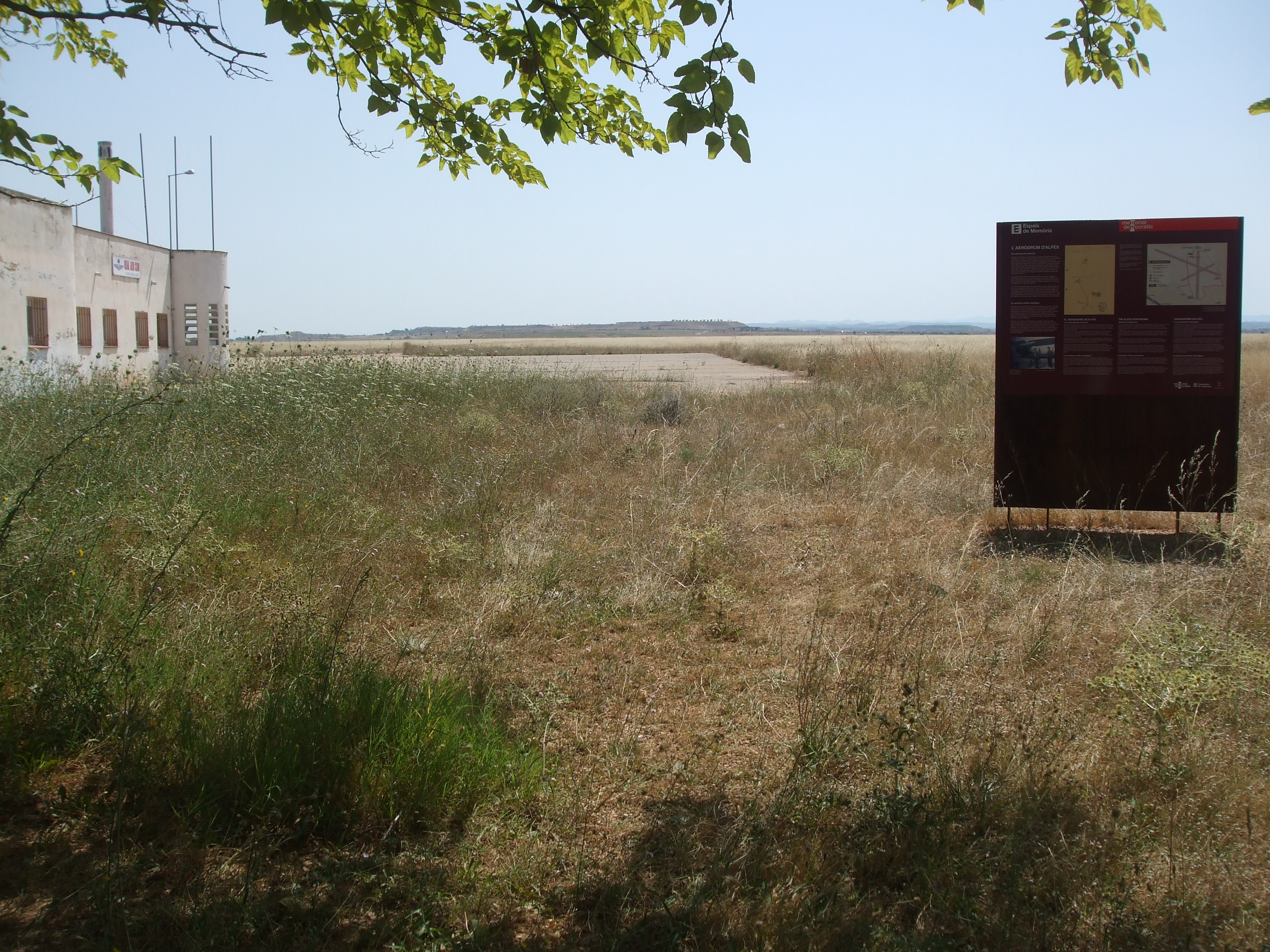 The Aeròdrom d'Alfés is located south of Lleida in the west of Catalonia. Today is is only used by the local aero-club. During the civil war it was used as a military airfield by both sides.